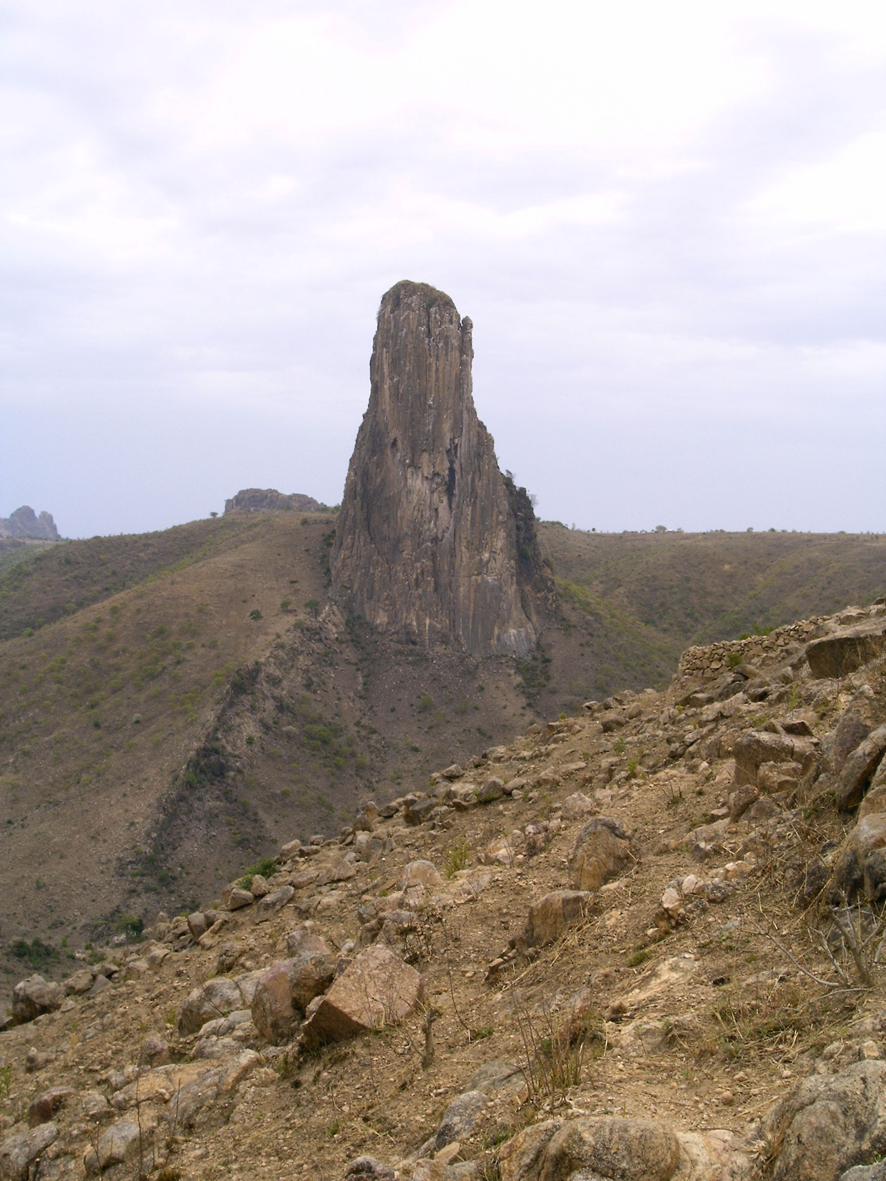 Rhumsiki Peak in the Far North Province of Cameroon.